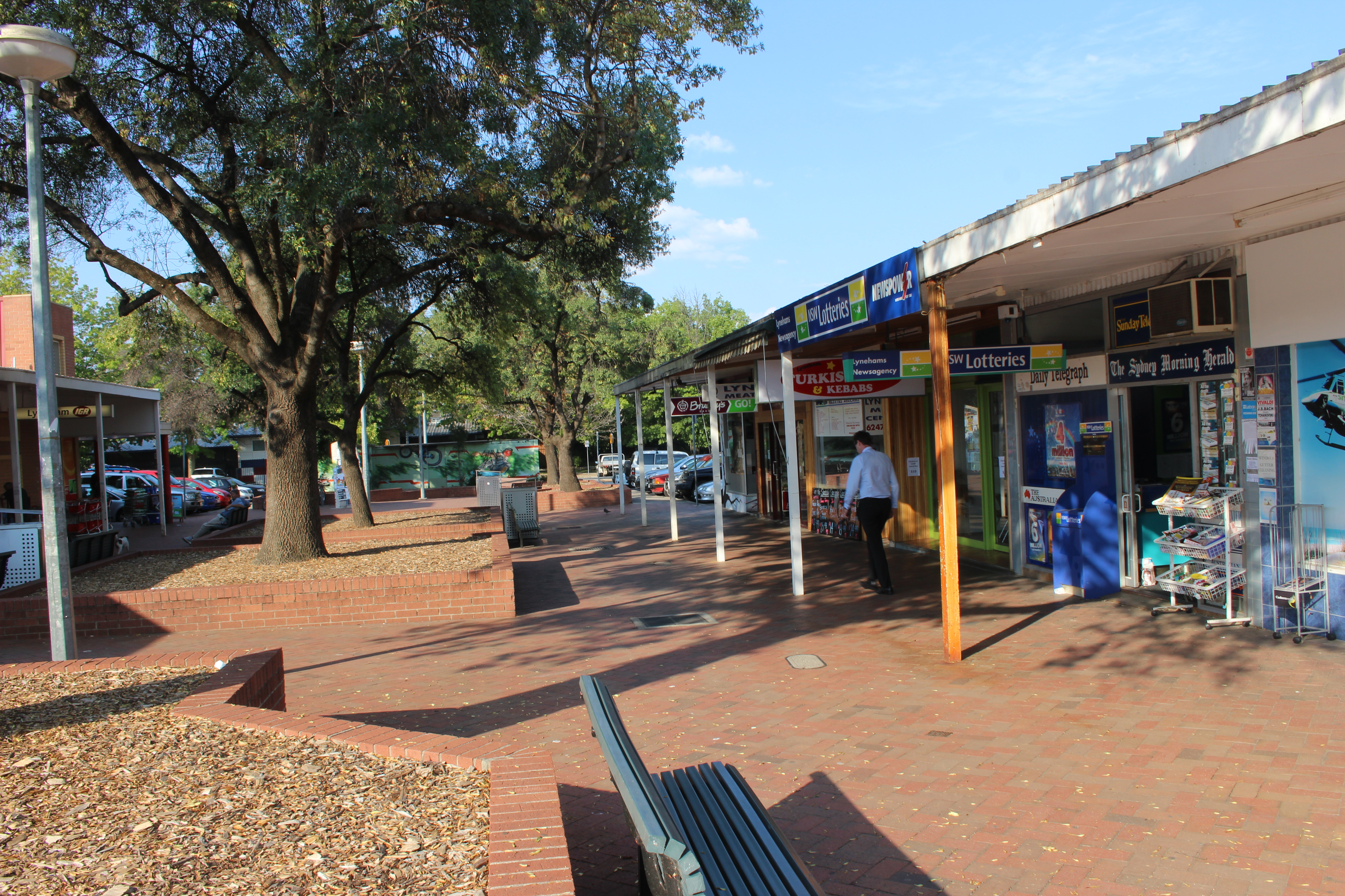 Lyneham shops